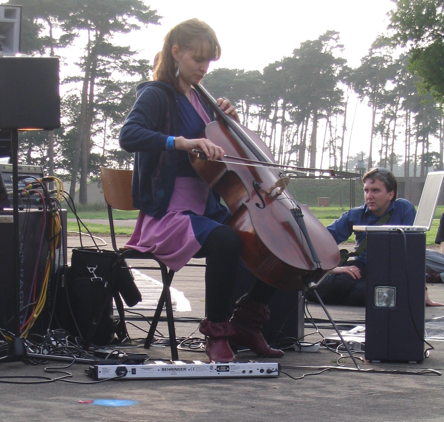 Hildur Guðnadóttir in 2007, at the Faster Than Sound festival in Suffolk.